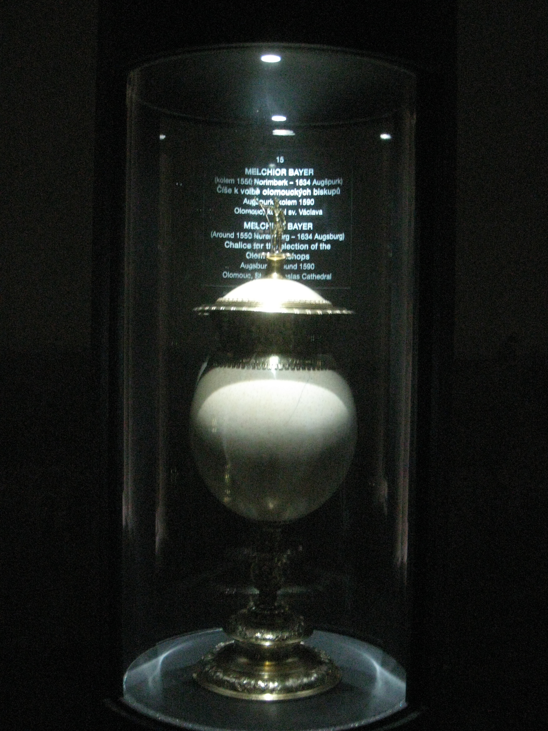 Urn used in the election of the Bishop of Olomouc. Olomouc, Archidiocesan Museum